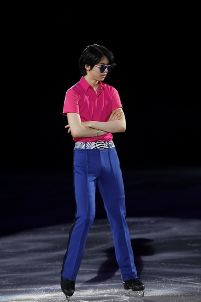 Gala exhibition at the 2018 Winter Olympics